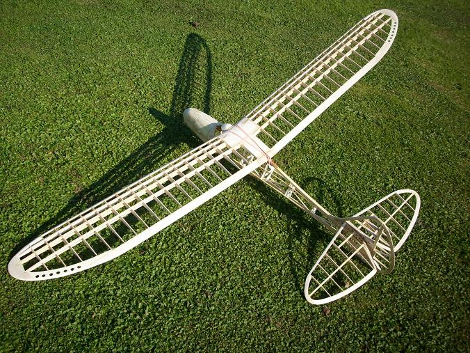 Model Glider Oldtimer Sindbad